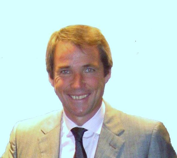 Picture was originally with me and Alan Hanson in 2004, I have cropped the picture so that only Alan Hanson appears.